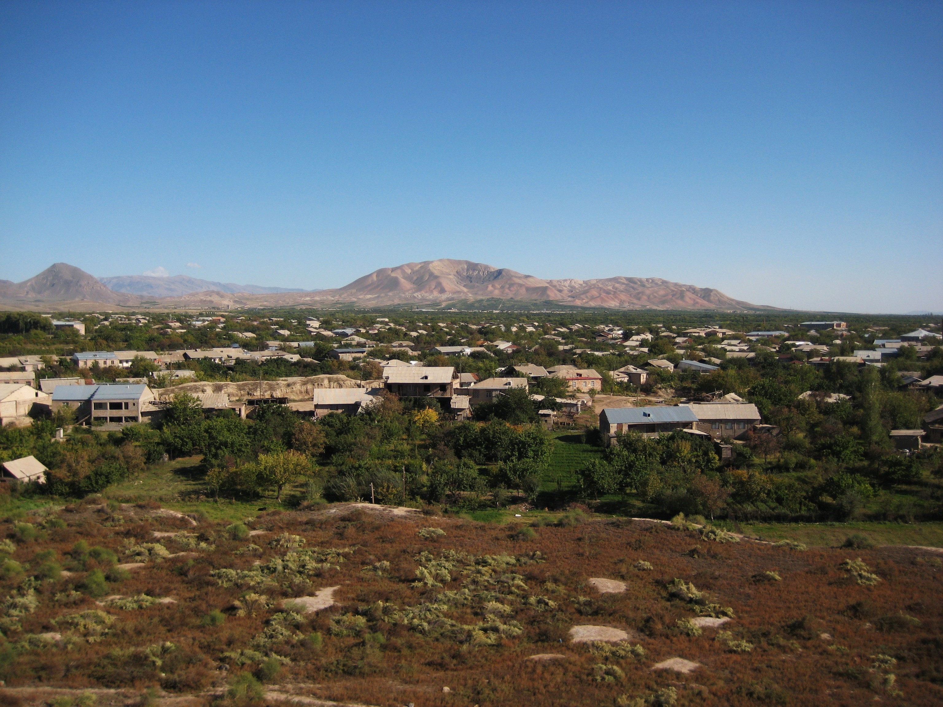 The villages of Norashen (left) and Verin Artashat (right)